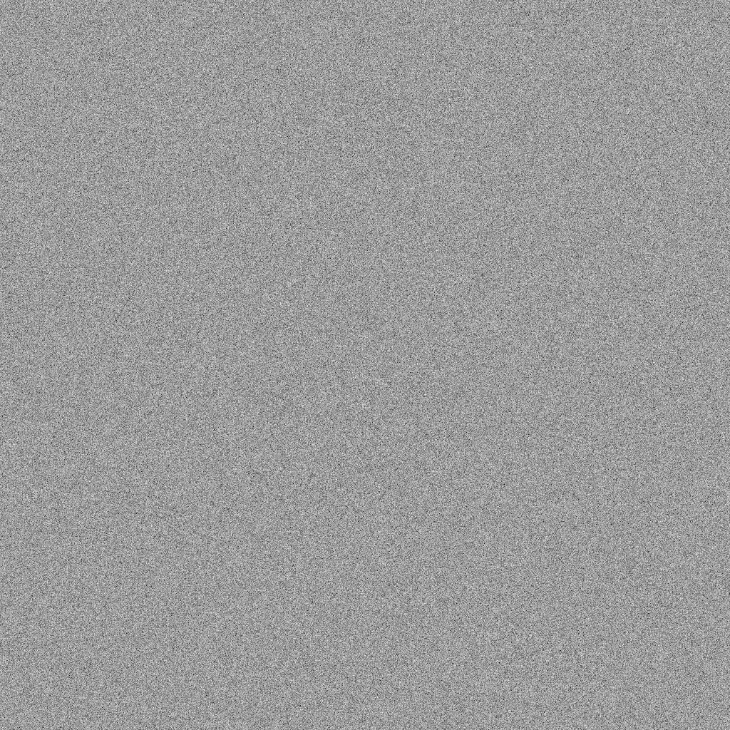 Example distribution of random numbers on a 1024x1024 matrix using Xorshift128 from the xorshift Rust library.